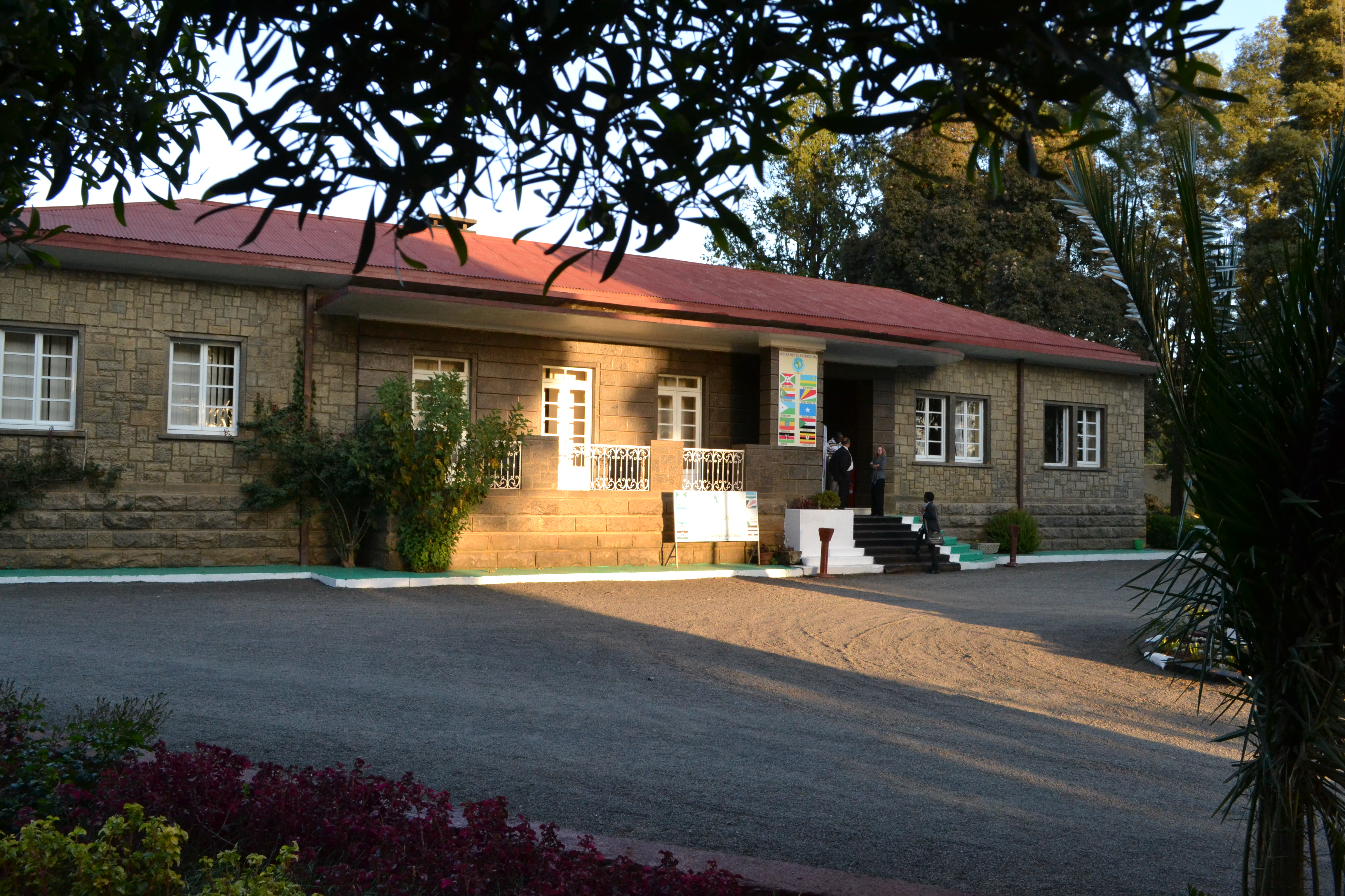 Headquarters of the African Union EASTBRIG in Addis Ababa, Ethiopia. Built as a royal residence, it was later the Ethiopian Navy HQ.